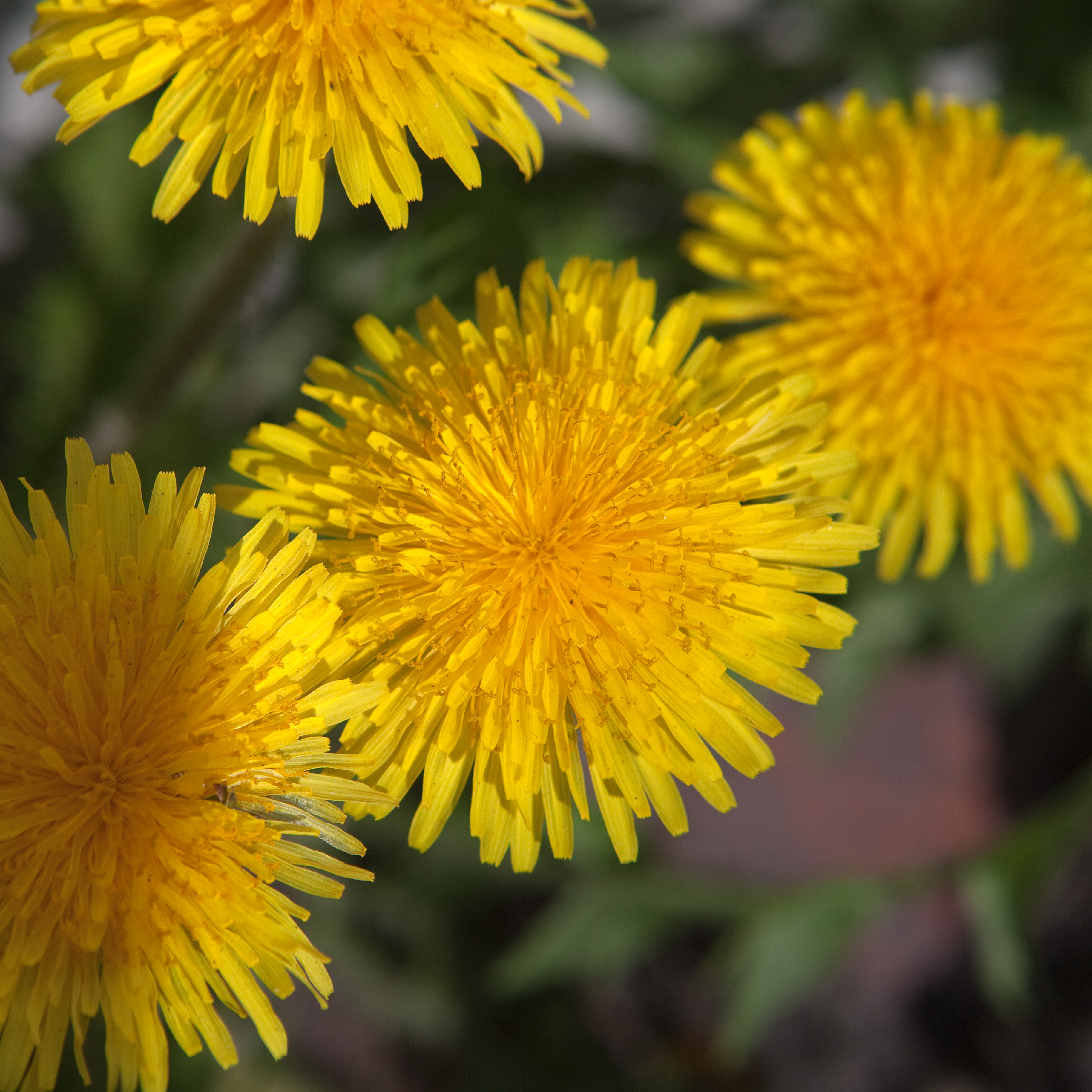 Vaxholm April 2011